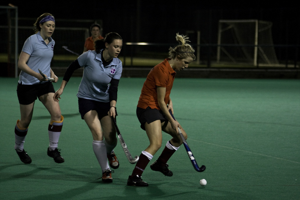 Durham University Hill Colleges Versus Bailey Colleges Hockey Match